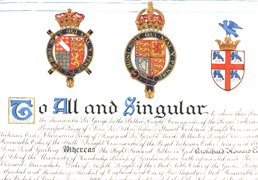 Grant of Arms for the Rt Rev Archibald Howard Cullen, as issued by the College of Arms in London under Sir George Rothe Bellew, who was Garter King of Arms from 1950 – 1961.